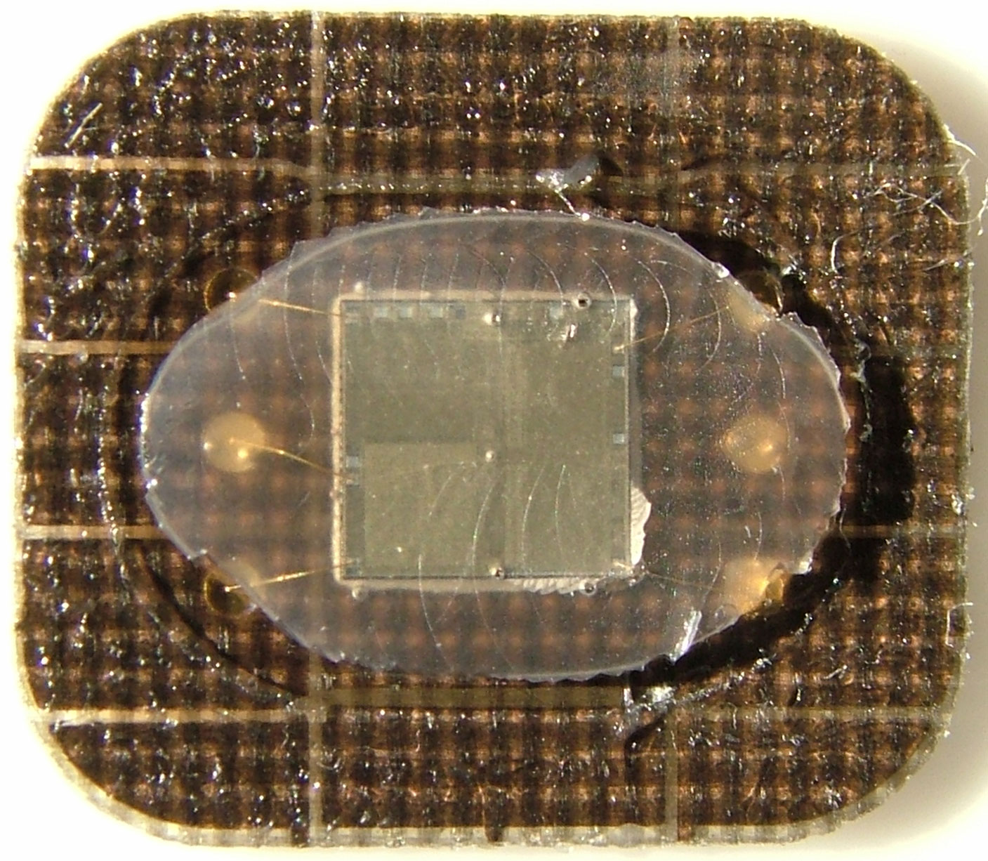 Chip and contacts from a Dutch "chipknip"